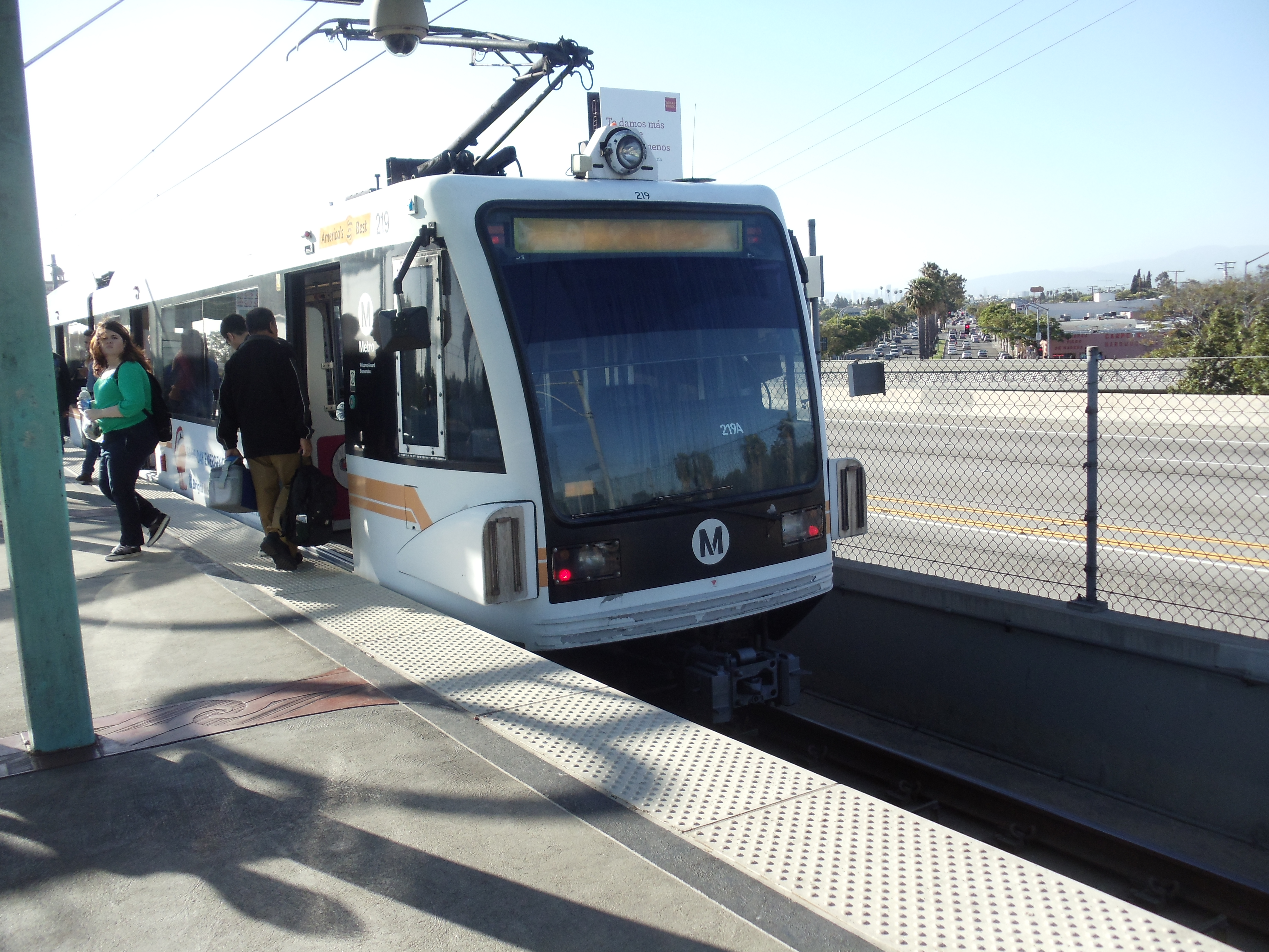 Westbound Metro Green Line train to Redondo Beach Station arrives at Long Beach Blvd. Station.